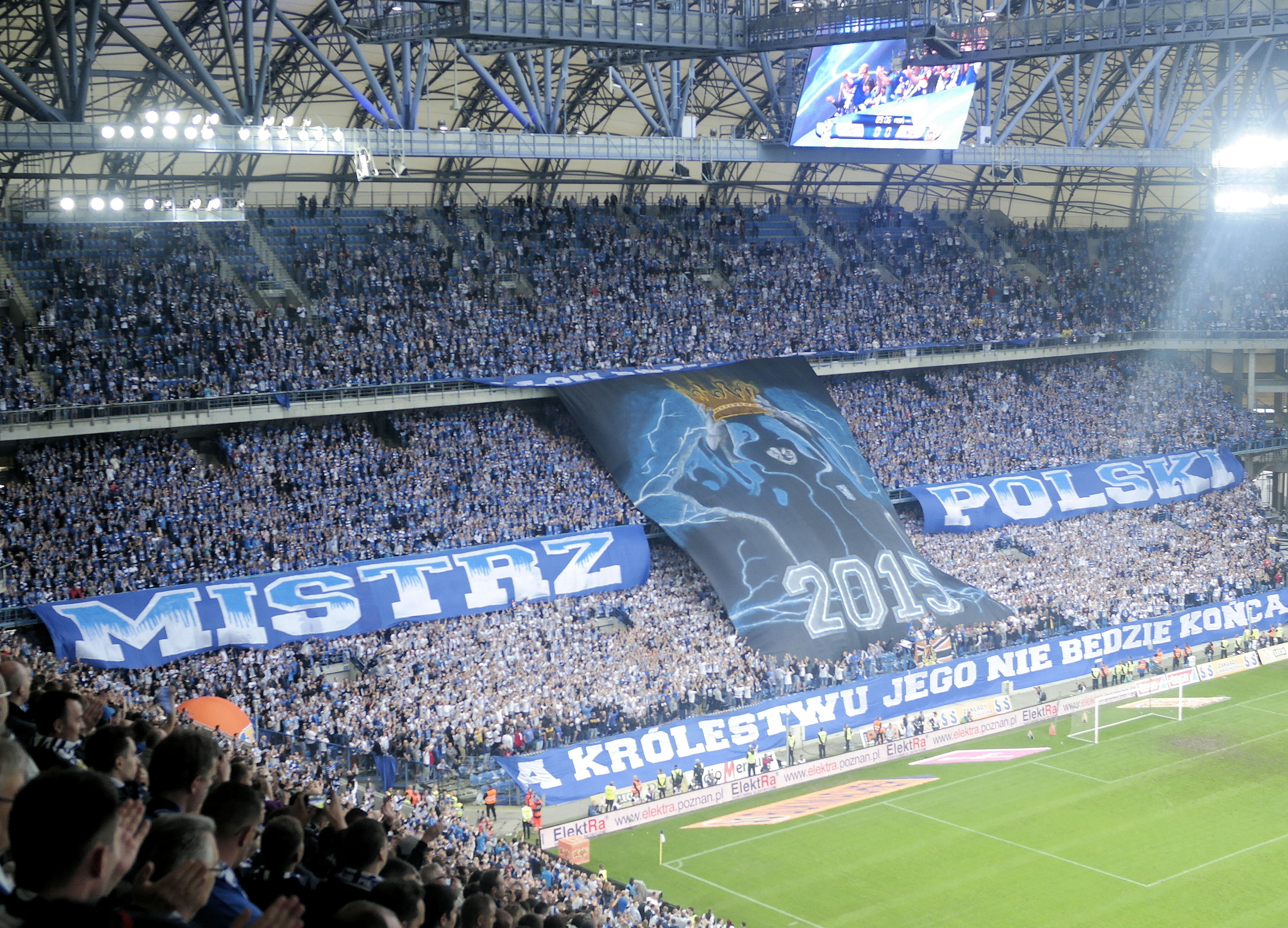 Football team Lech Poznań wins the league and will play in qualifing round of the Chanmpions League, Poznań, Polska.